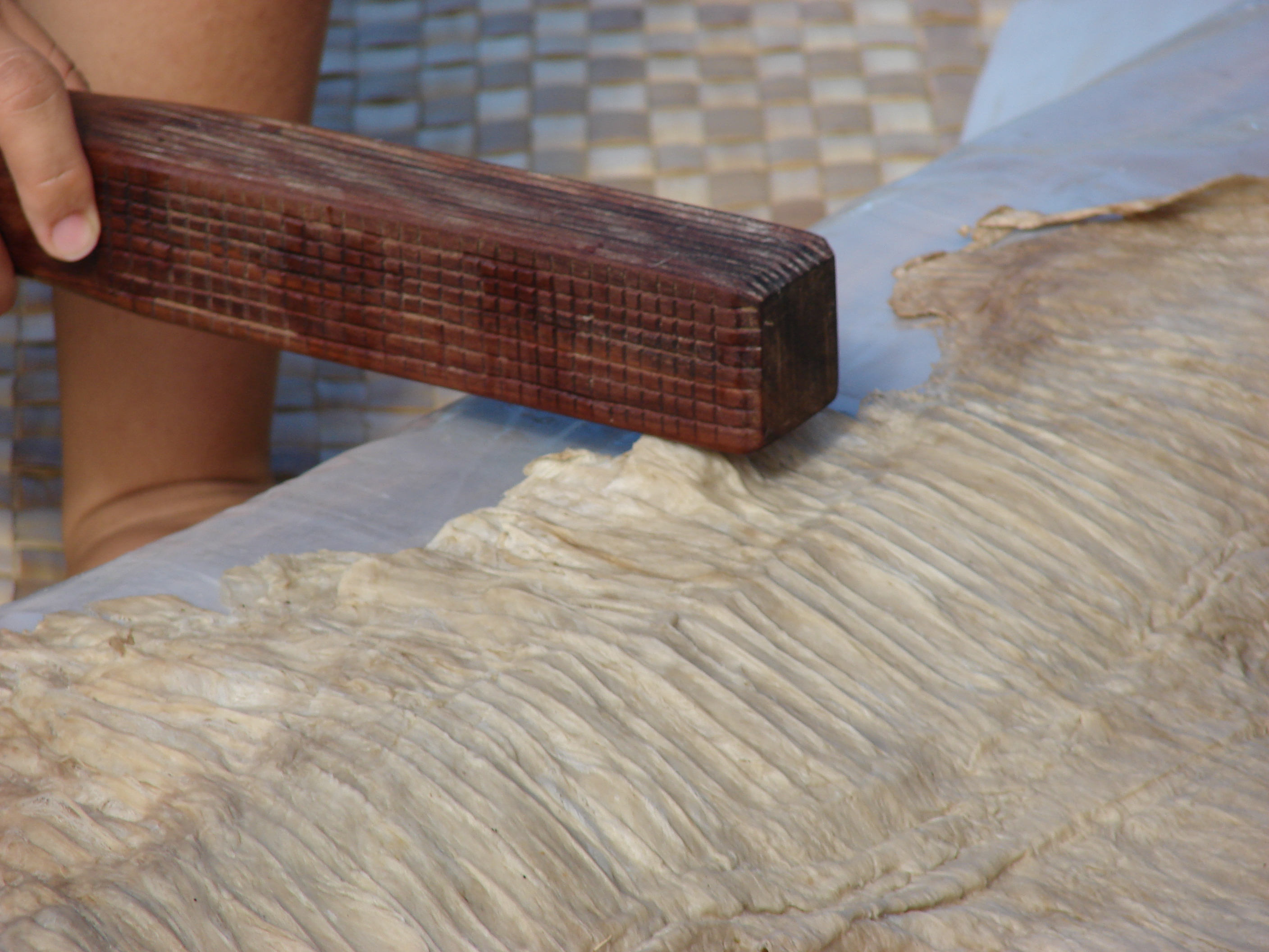 Broussonetia papyrifera (preparing tapa). Location: Maui, Maui Nui Botanical Garden